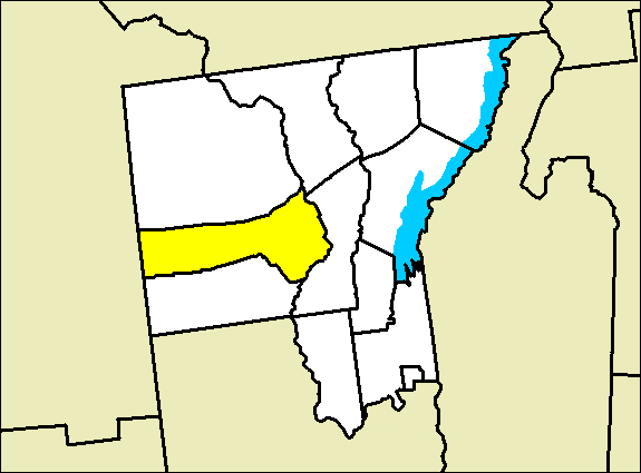 Map of Warren County, New York with town of Thurman highlighted.